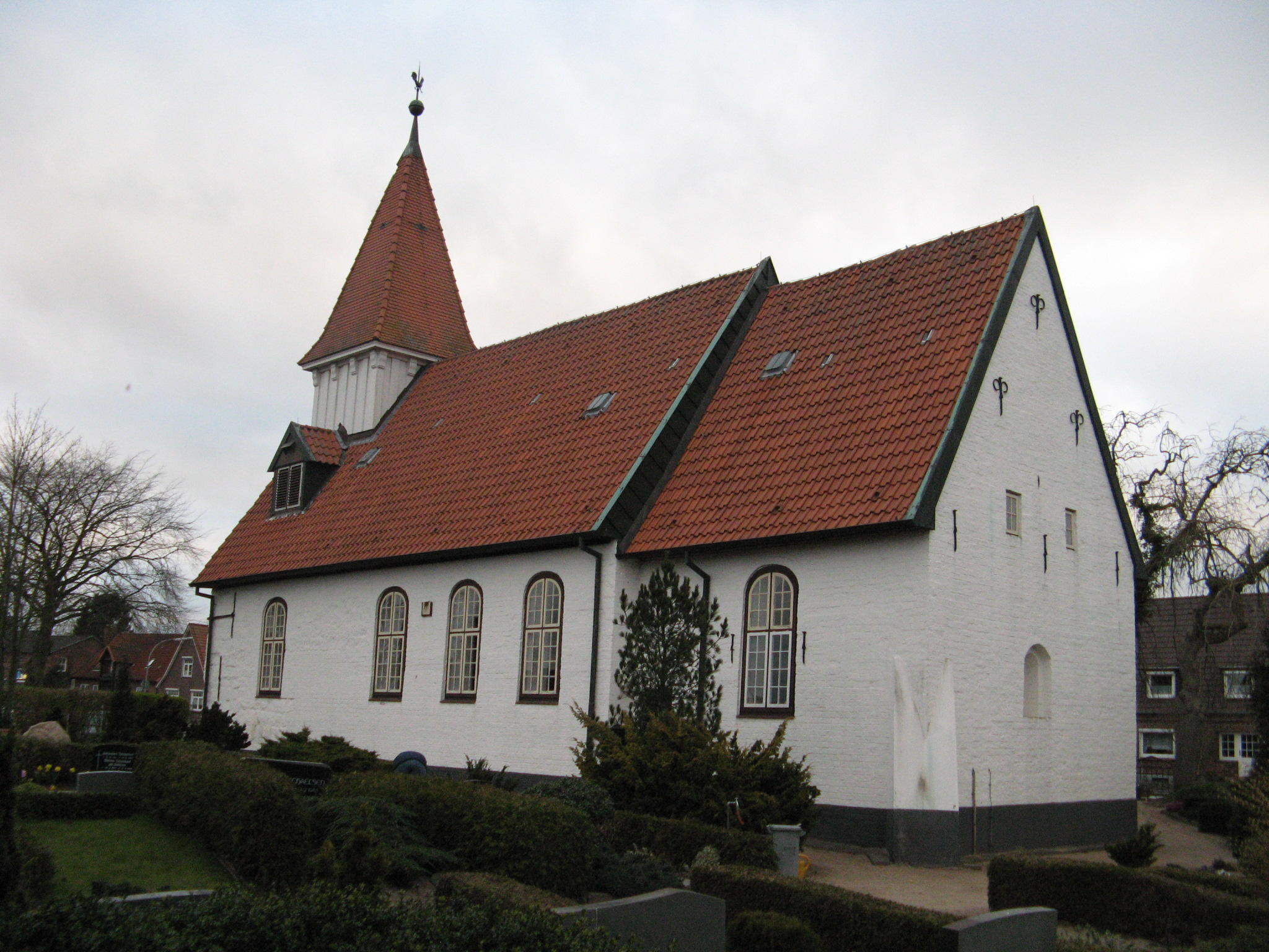 treia church Author: Dirk Ingo Franke